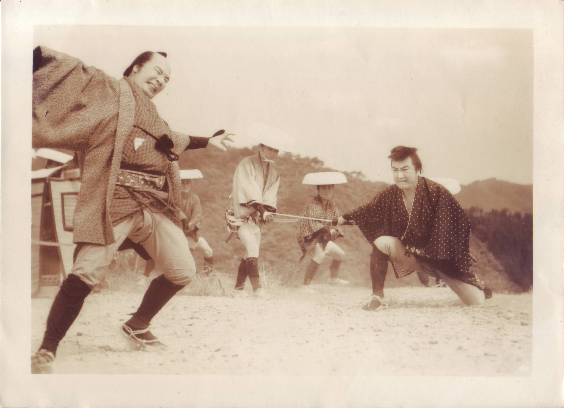 Chiezō Kataoka and Eitarō Shindō (left). Studio Still of the 1955 Japanese film "Yatarō-gasa" (Toei Company).